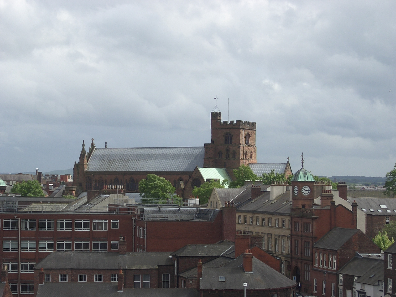 Carlisle Cathedral from the Castle